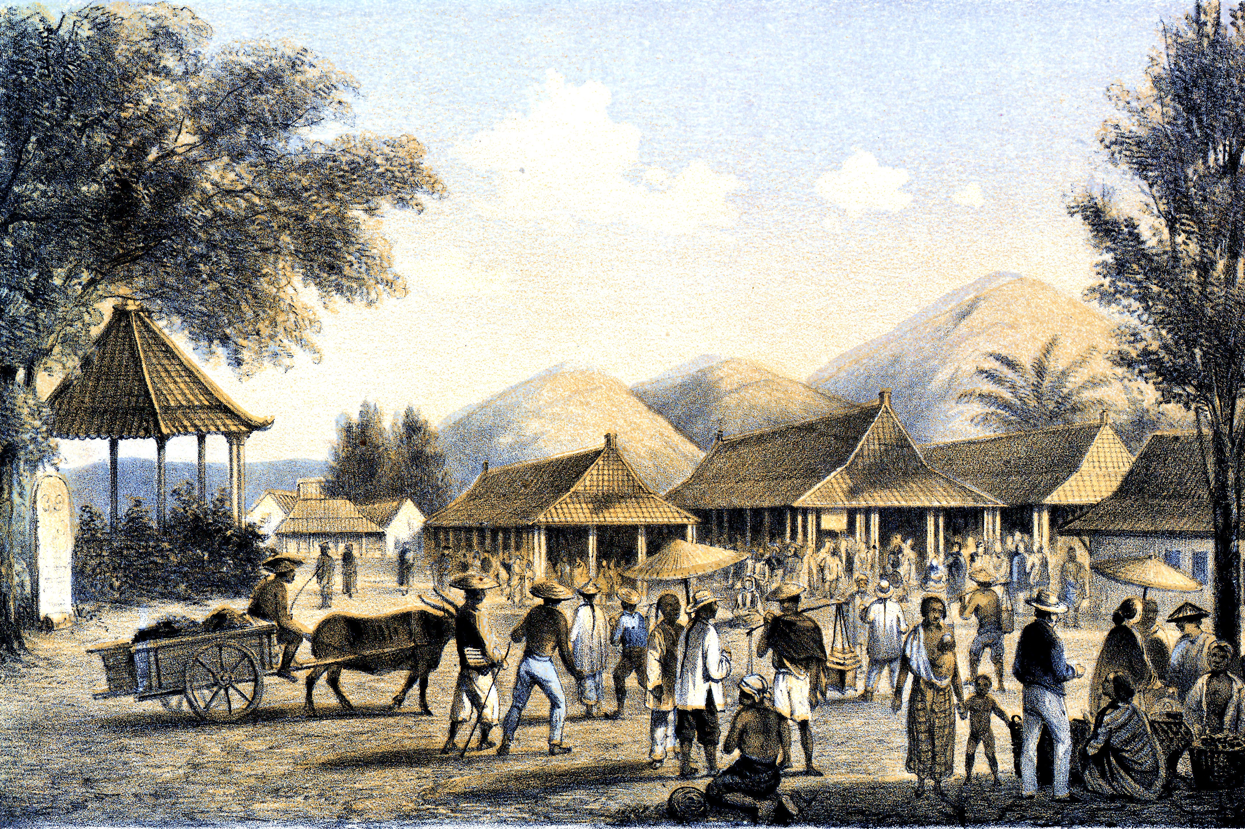 Bazar te Buitenzorg